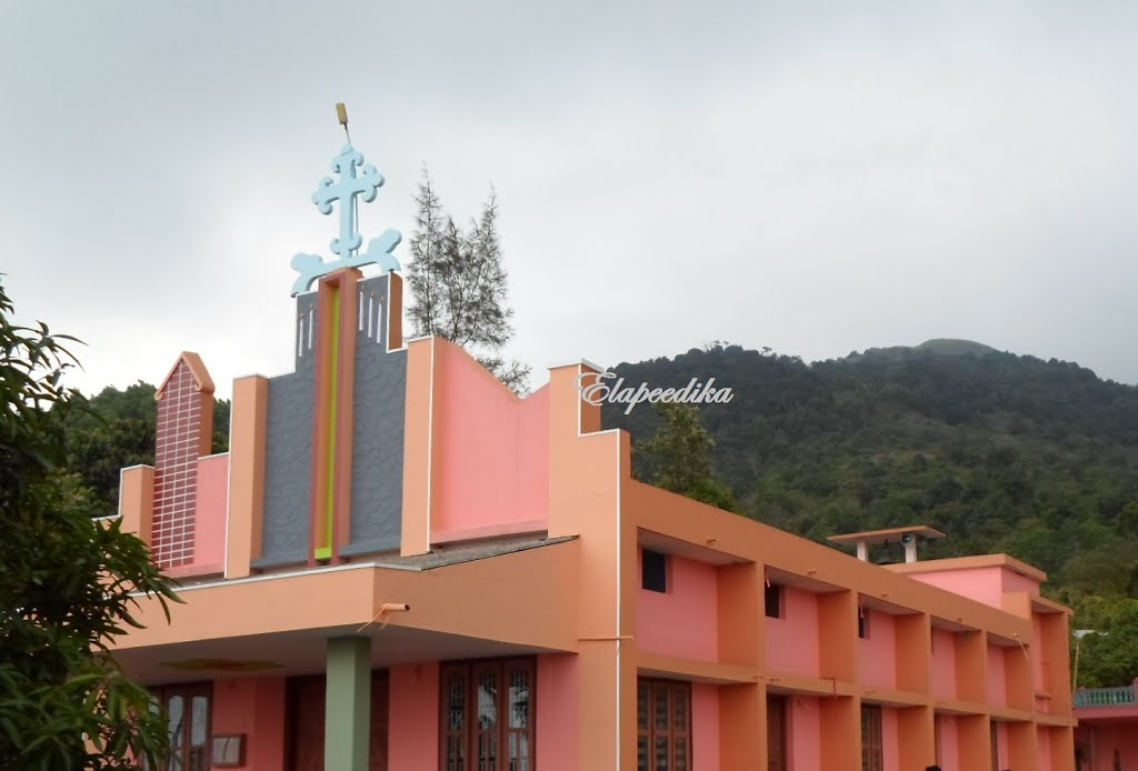 St. Sebastian's Church, Elapeedika